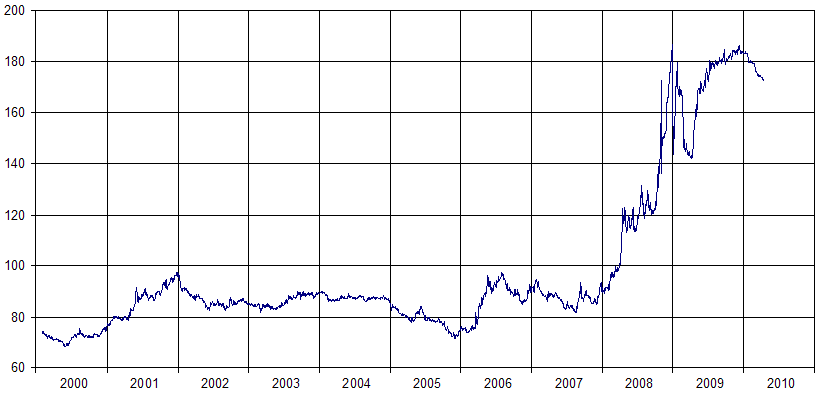 Exchange rate of euro against Icelandic krona. Year 2000 until March 2010